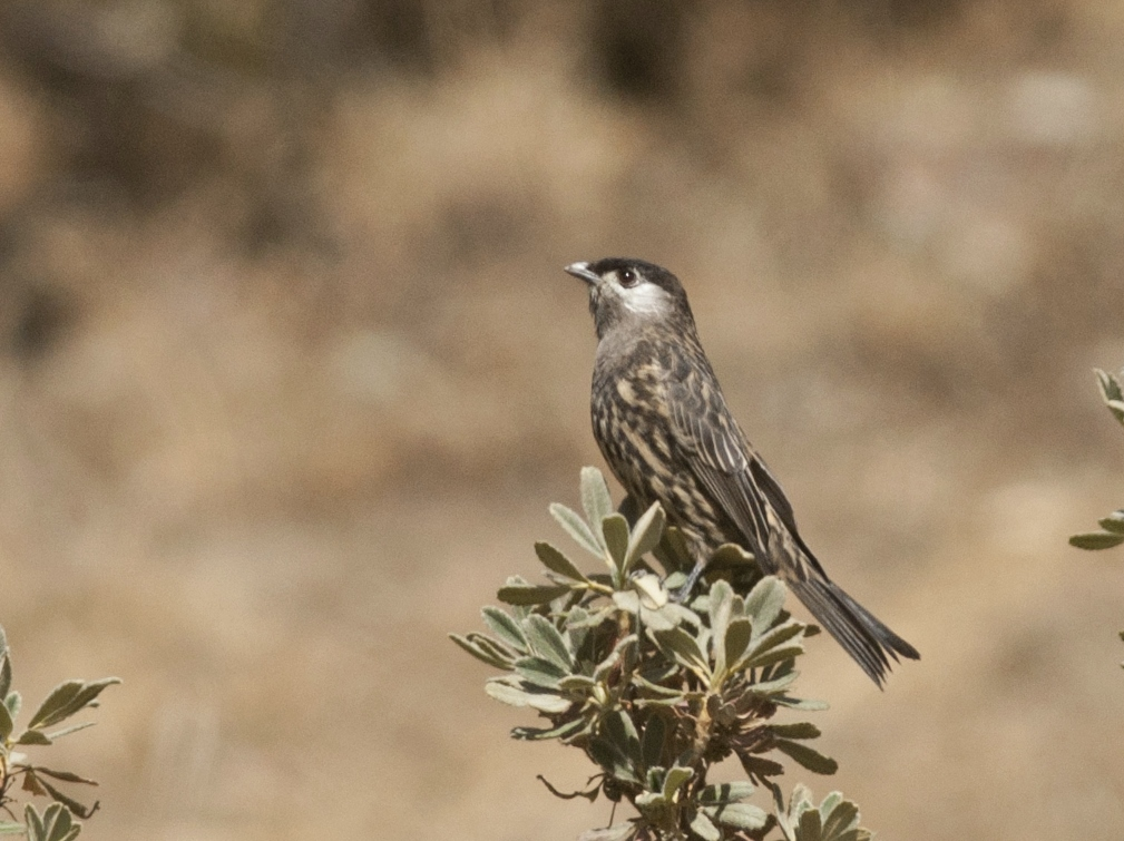 White-cheeked Cotinga; Santa Eulalia Valley, Lima Peru